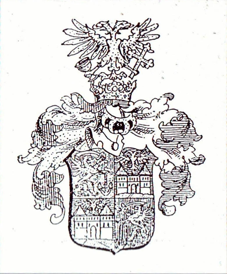 Dimitrije Anastasijević Sabov Coat of arms (1792) Srpski (latinica): Grb Dimitrija Anastasijevića Sabova (1792)